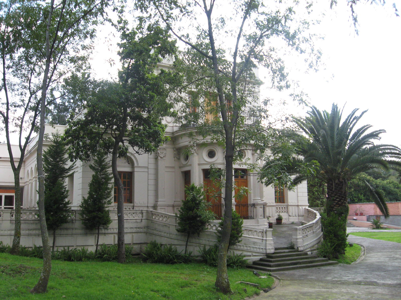 Main house at Instituto de la Ciencia y la Cultura de Tlalpan (Institute of Science and Culture of Tlalpan) Javier Barros Sierra in the Tlalpan Borough in Mexico City